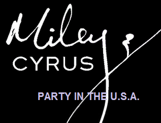 Miley Cyrus - Party In The U.S.A.